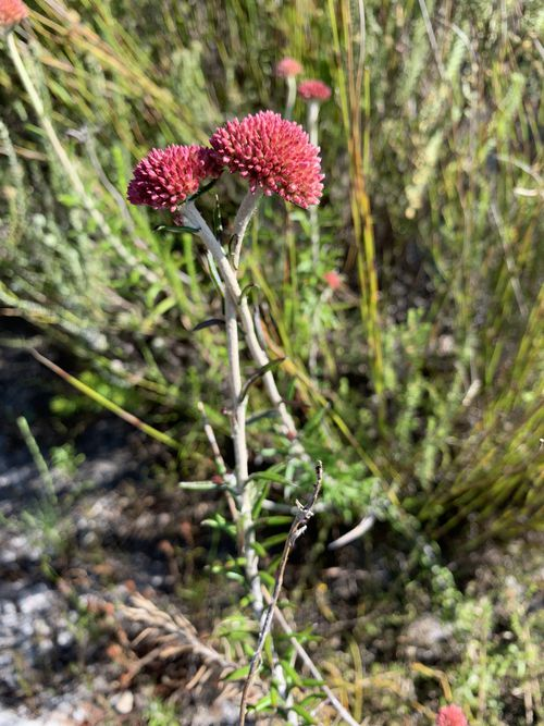 Anaxeton laeve observed in South Africa